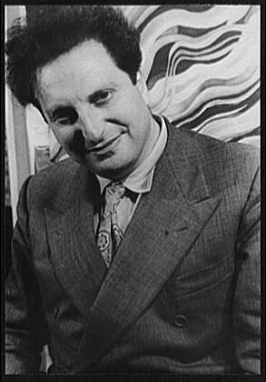 Portrait de Carlo Levi (painter). By Carl Van Vechten, photographer (created/published: 1947 June 4) Carlo Levi